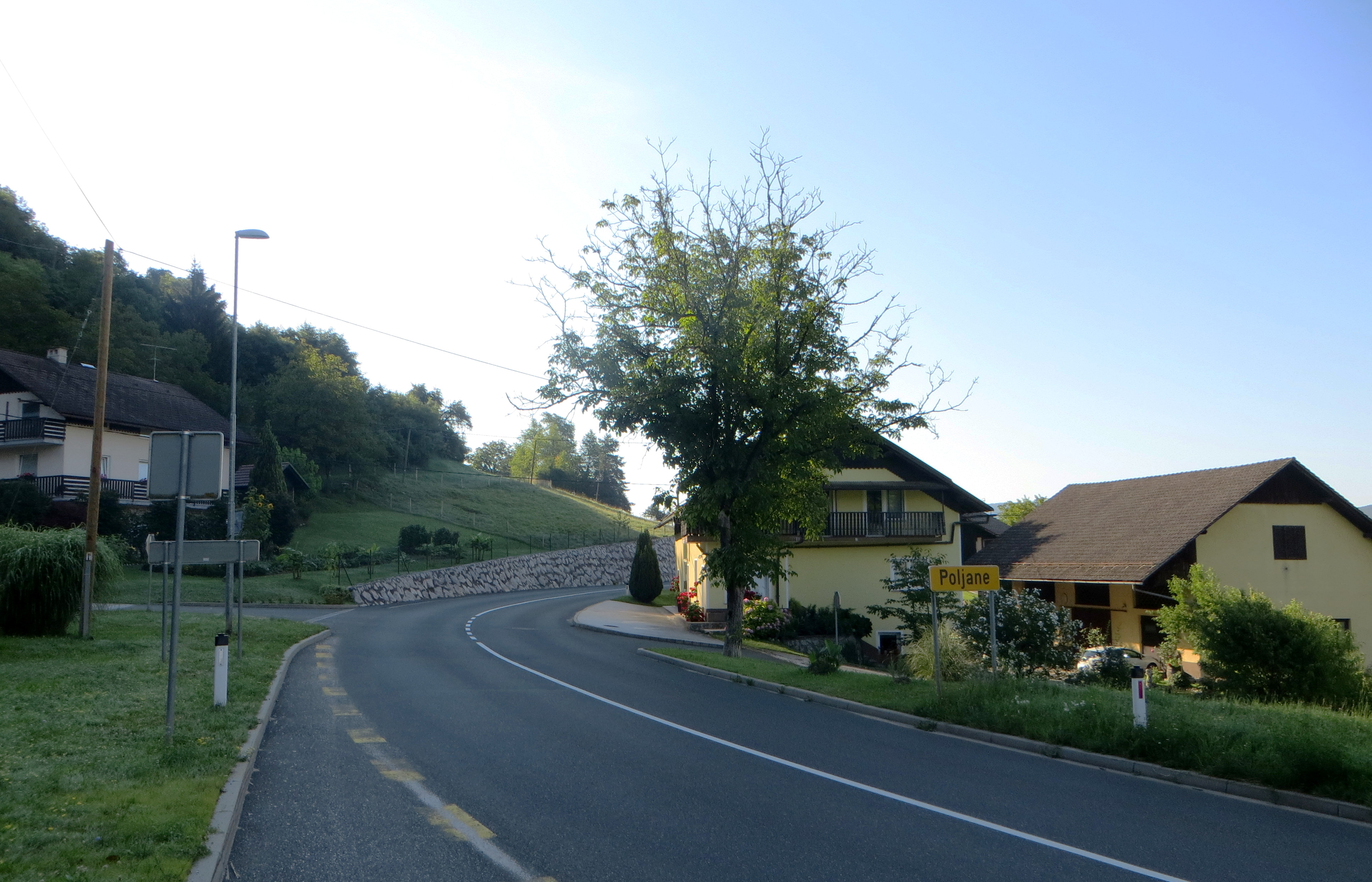 Poljane pri Žužemberku, Municipality of Žužemberk, Slovenia